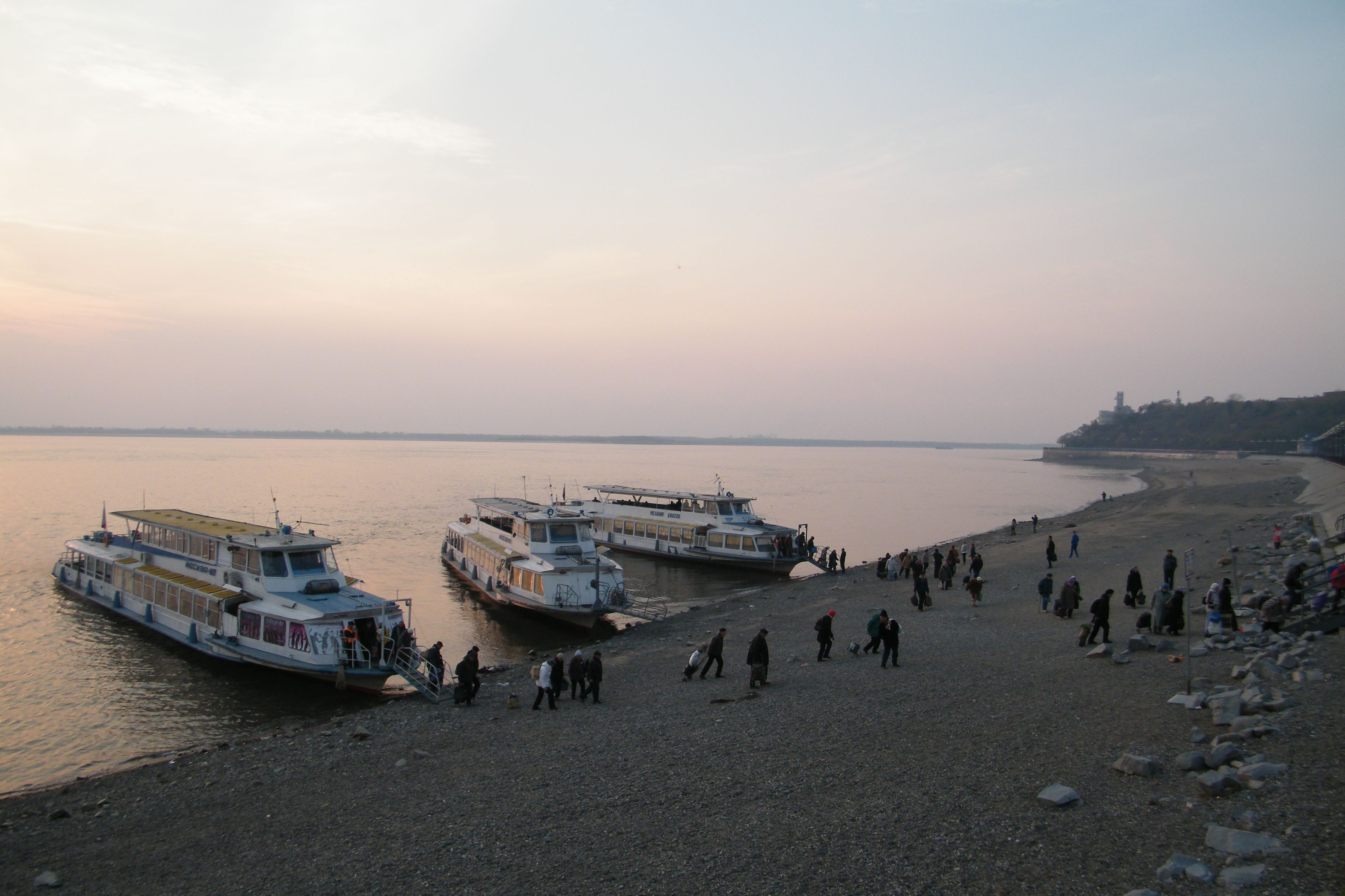 Type Moskva ships